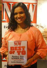 Rathika Sitsabaiesan - Honored to win in local MP category in Now "Best Of 2012"